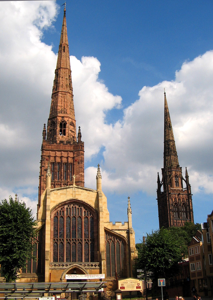 Holy Trinity parish church (left) and the tower and spire of St Michael's Cathedral (right) in central Coventry, England